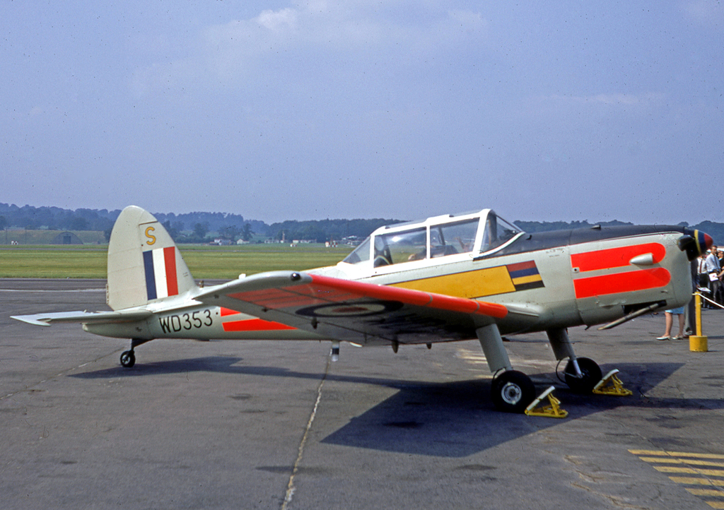 De Havilland Chipmunk T.10 WD353 of Birmingham University Air Squadron at RAF Shawbury in 1968